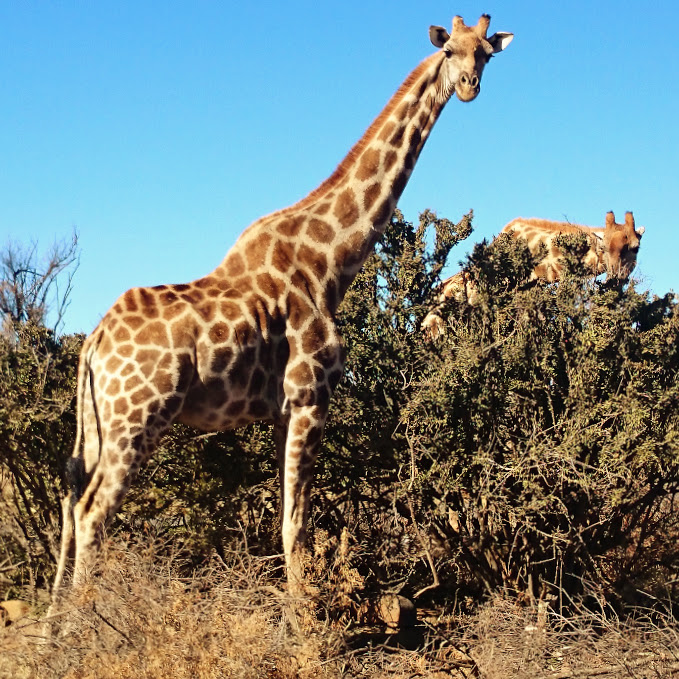 Two giraffes grazing in the Balule Nature Reserve